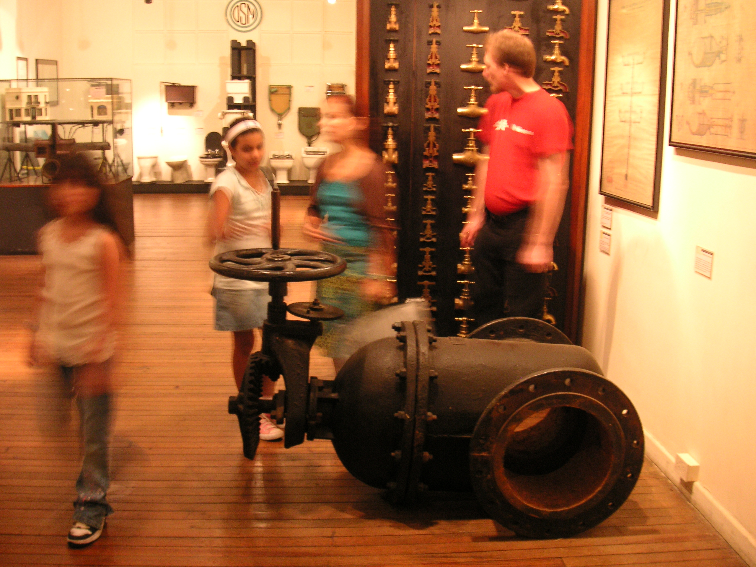 Water Company Building Museum, Buenos Aires